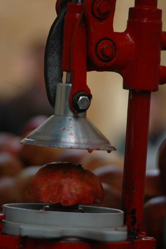 Plants of Israel